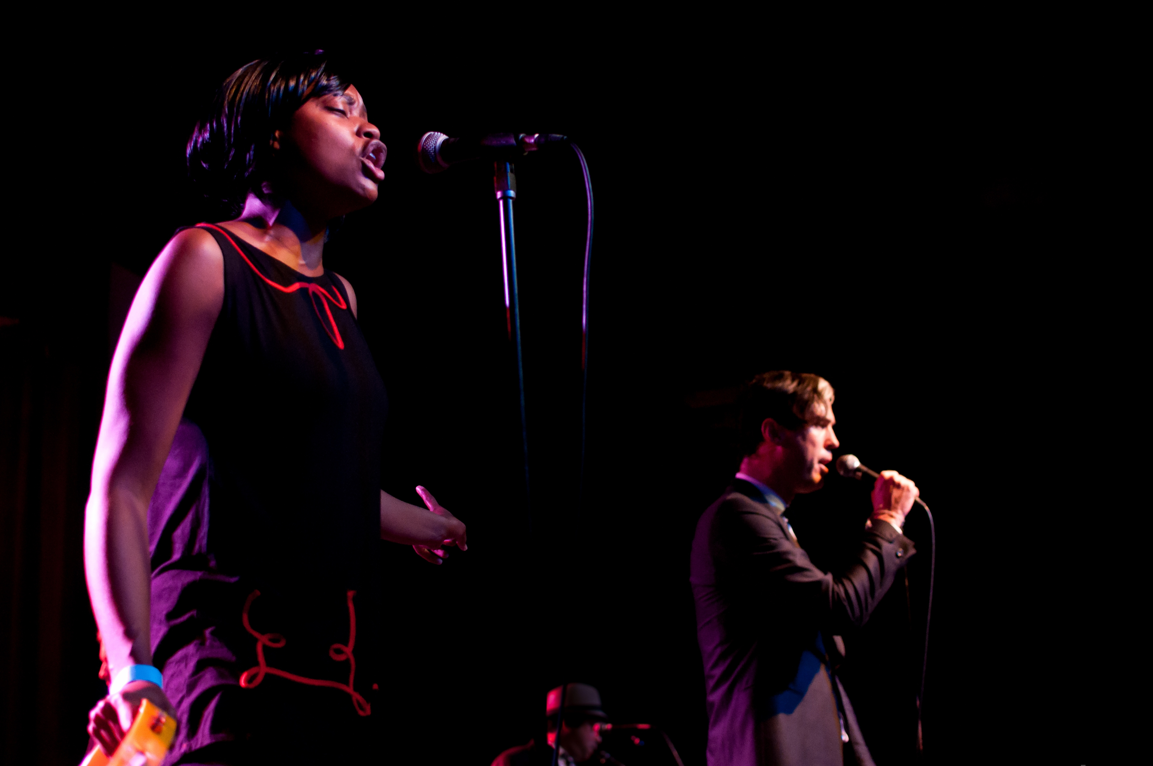 Noelle Scaggs (front) and Michael Fitzpatrick (back) of Fitz & The Tantrums, opening for Sharon Jones & The Dap-Kings at The Orange Peel in Asheville, North Carolina.